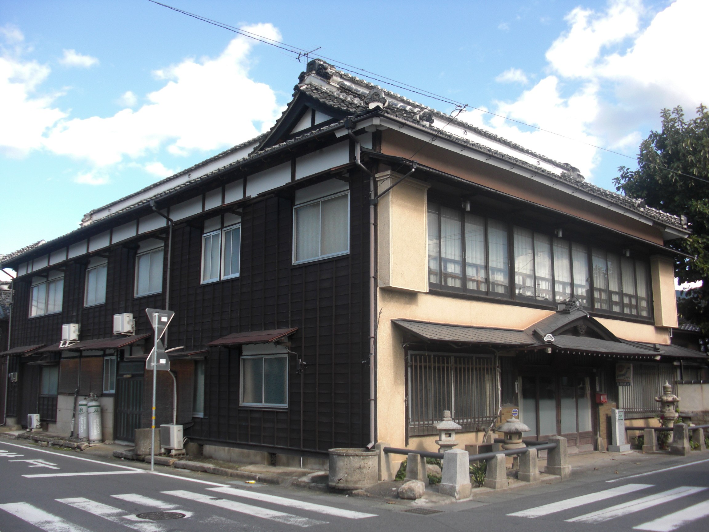 This is the Hashimoto Ryokan or Japanese style hotel of Hashimoto, which is located in Sakuragawa, Ibaraki, Japan.This building is a Registered Tangible Cultural Properties of Japan. (Resistered 25th June, 2002 No.08-0066 and 0067)